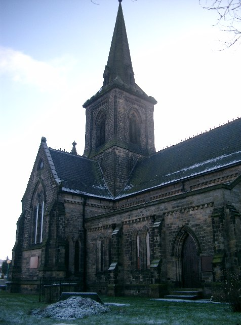 St Mary's Church, Garforth. The parish church of Garforth on Church Lane.